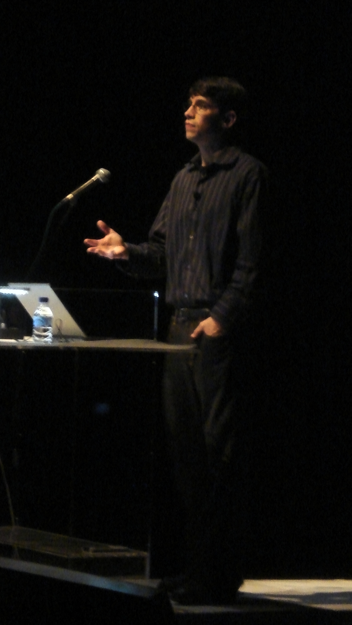 Ted Price, president and CEO of Insomniac Games, at the ArtFutura 2006.